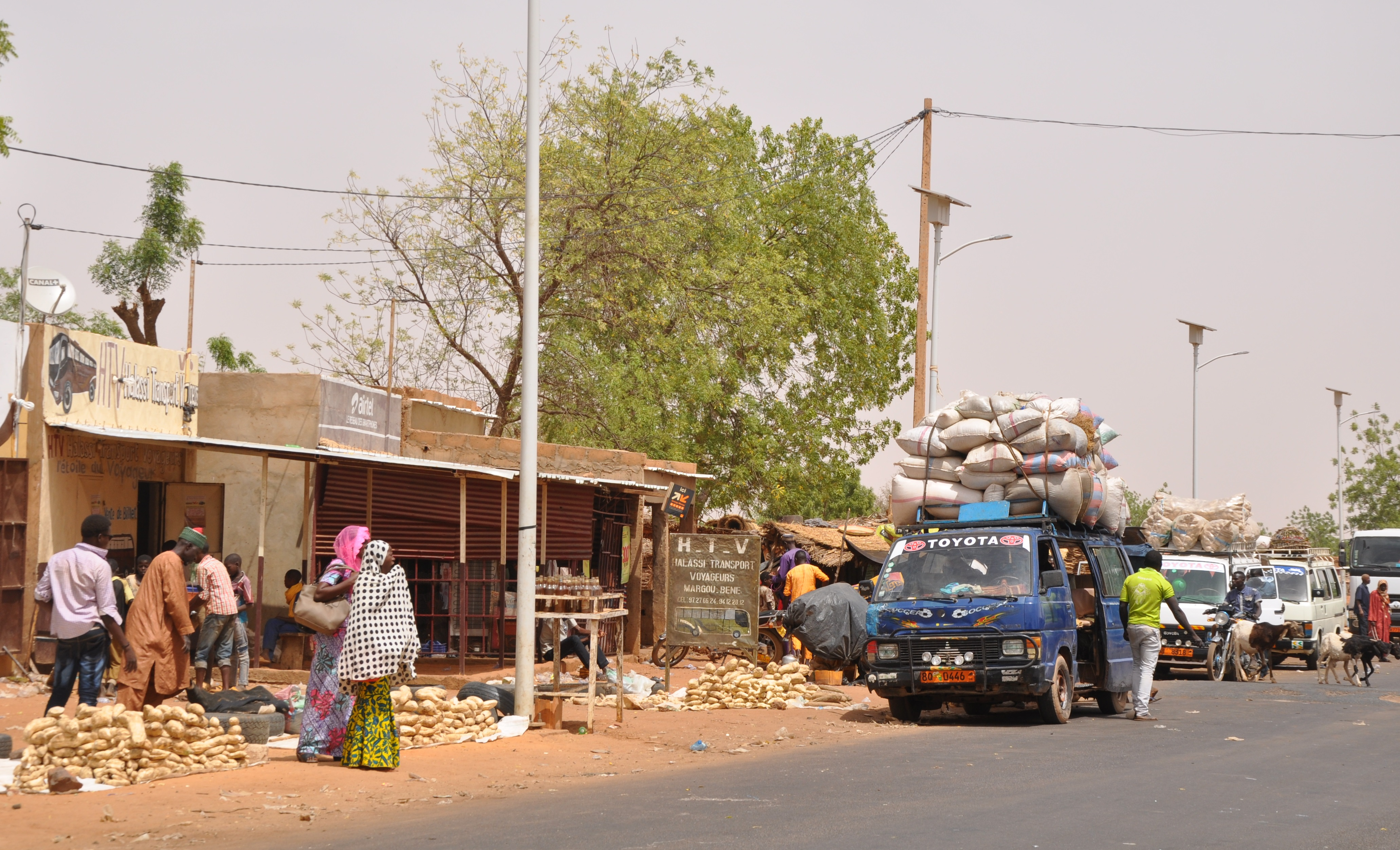 A street scene in the Koudou Gandé (= Margou Benné) neighborhood of Margou, a village in southwestern Niger along the Route Nationale No.1, 7.8 km West of Birni N'Gaouré (Dosso region, Boboye department, Birni N'Gaouré commune).